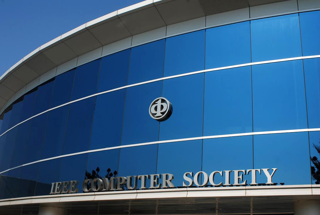 IEEE Computer Society Publications Office - Los Alamitos, CA